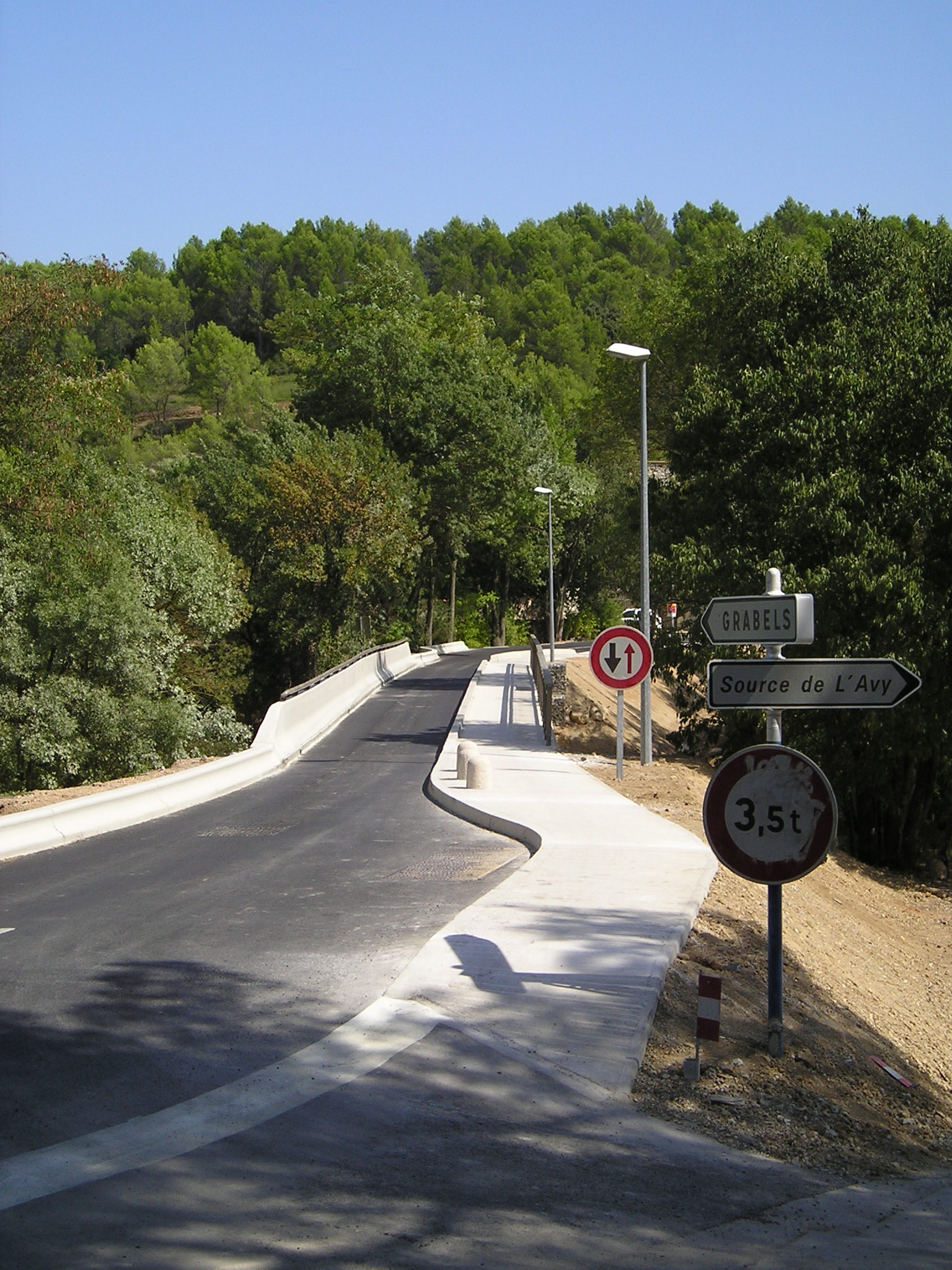 In Grabels, France, the new bridge over the Mosson River, opened to circulation on 8 September 2009, viewed from the right side of the river (i.e. from the road coming from Bel-Air.